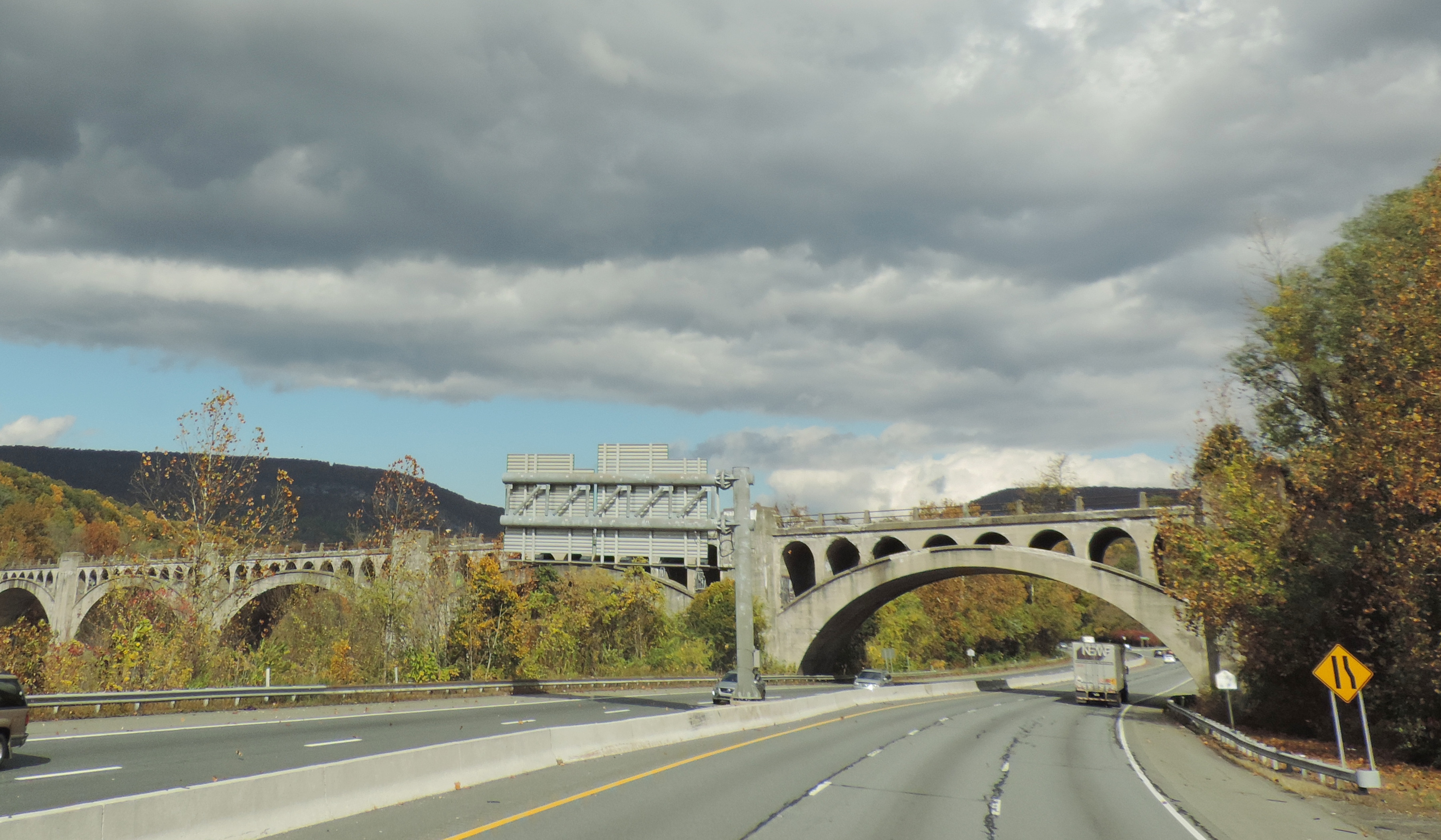 Looking northwest as RR viaduct crosses I-80 and Delaware river.